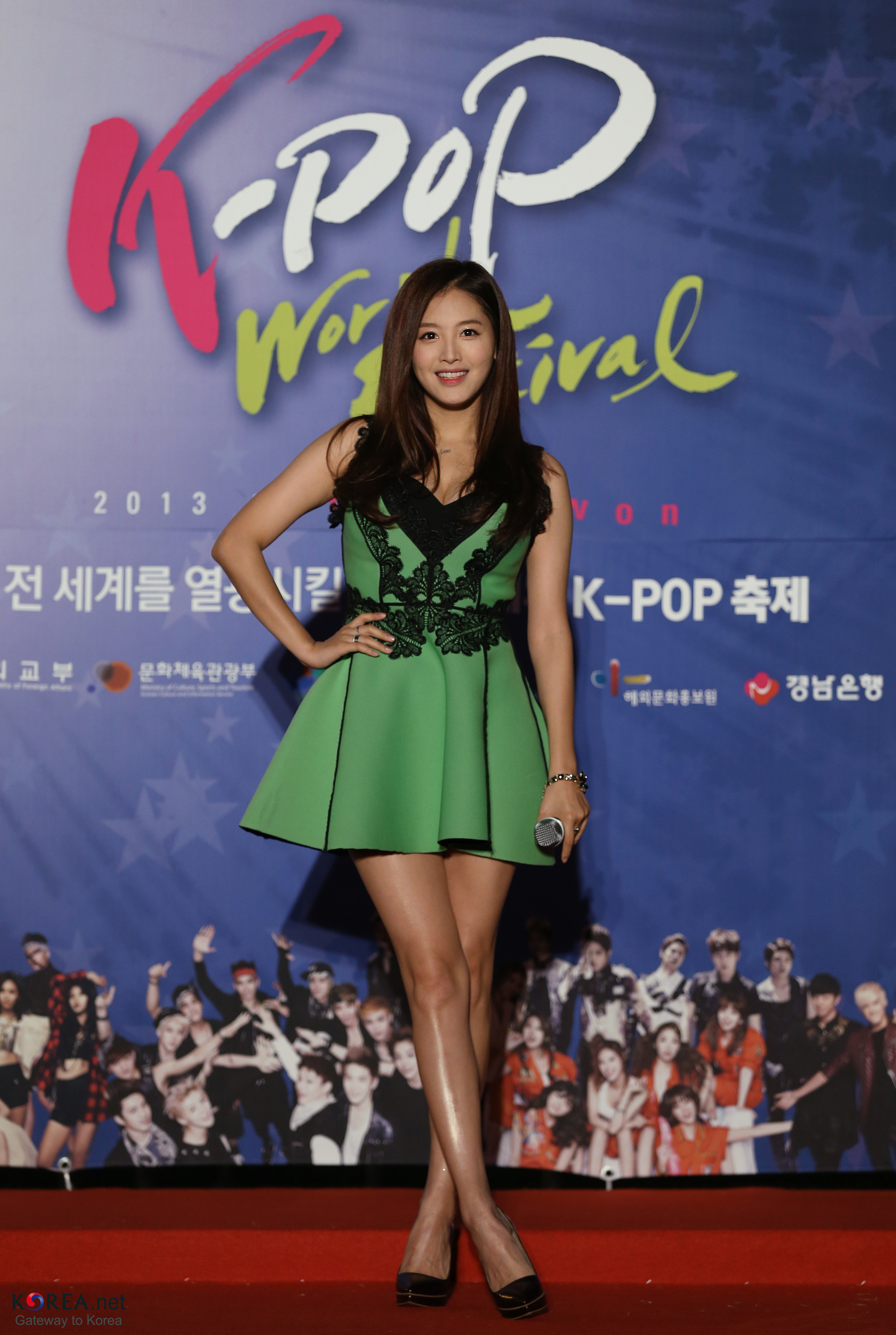 2013 K-POP World Festival in Changwon October 20, 2013 Changwon-si, Gyengsangnam-do Related Articles Cheong Wa Dae K-Pop World Festival unites global fans -English K-Pop World Festival unites global fans -中文 “2013 K-POP世界庆典” 用K-POP连结全世界 -Vietnamese Cả thế giới hội tụ tại “K-pop World Festival 2013” -日本語 「Kポップワールド・フェスティバル2013」、Kポップで世界が一つに -Deutsch „K-Pop World Festival” bringt internationale Fans zusammen -Francais Un festival mondial de la K-Pop 2013 de haute volée -Russian K-Pop World Festival объединяет фанатов со всего мира -Arabic المهرجان العالمي للبوب الكوري يوحد الجماهي Ministry of Culture, Sports and Tourism Korean Culture and Information Service Jeon Han 2013 제3회 K-POP 월드페스티벌 2013-10-20 경상남도, 창원시 문화체육관광부 해외문화홍보원 코리아넷 전한